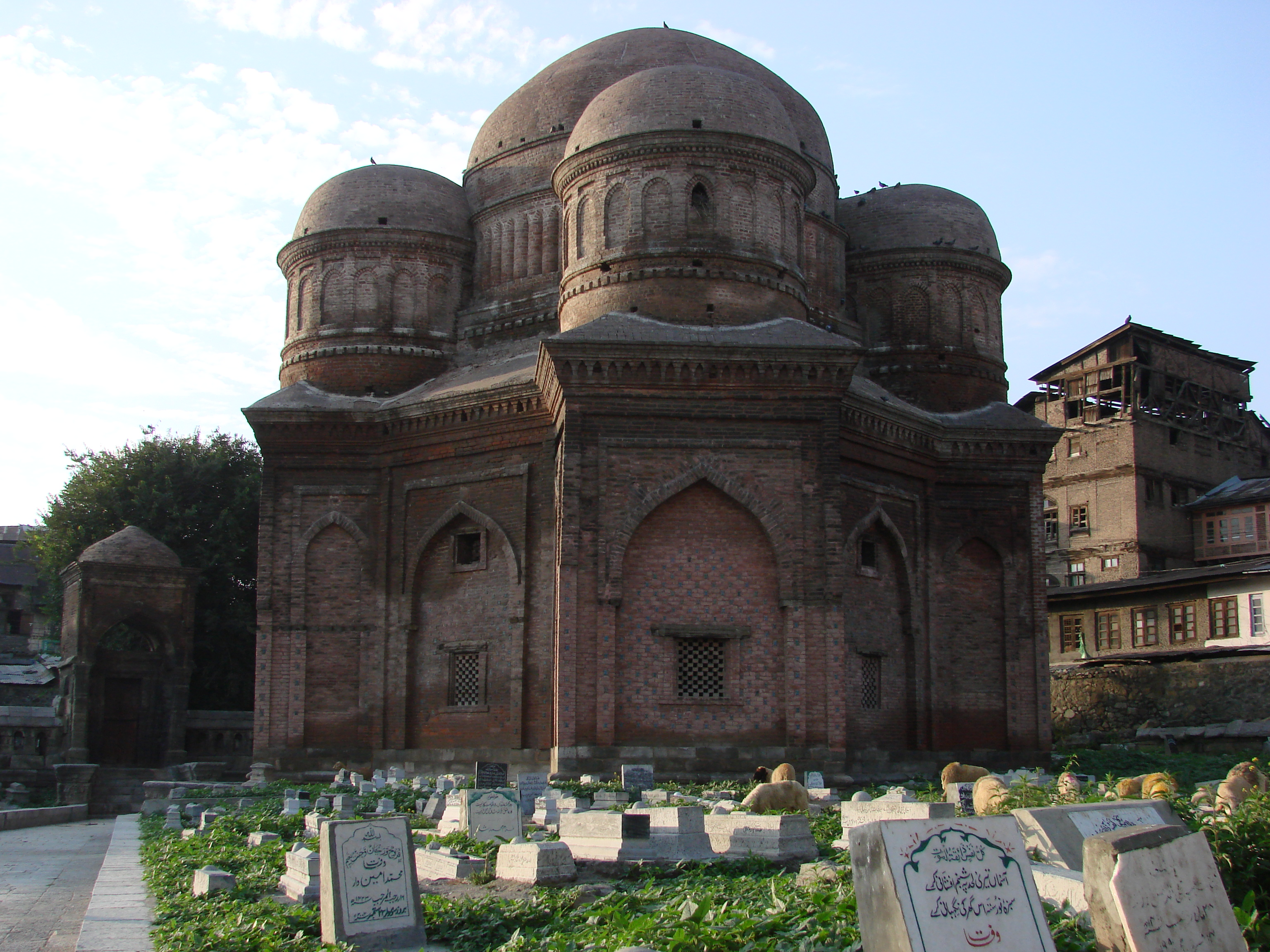 This is the Tomb of the Mother of Zain-ul-Abidin in Zaina Kadal graveyard,Srinagar, India.